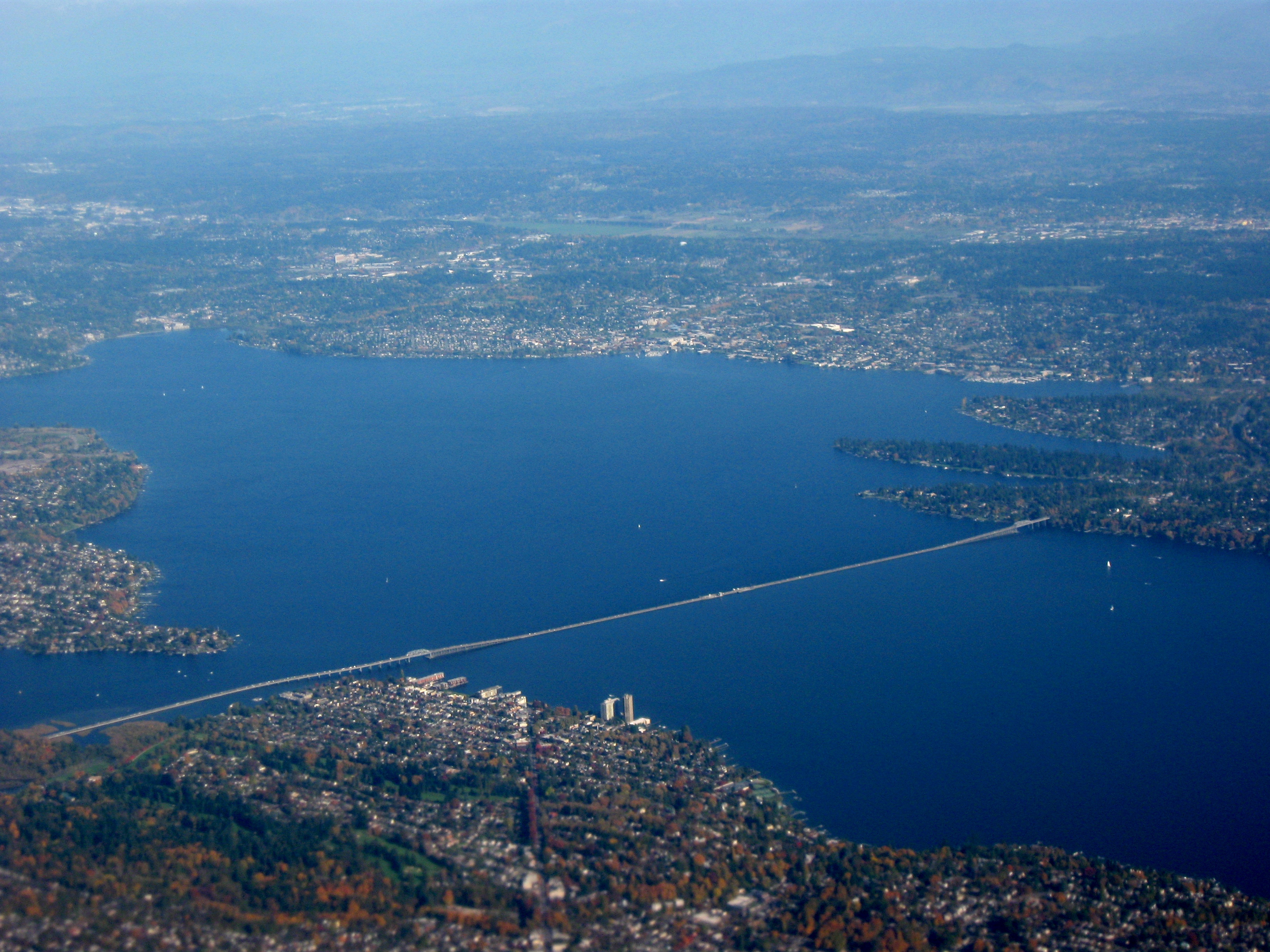 Evergreen Point Floating Bridge (Washington State Route 520) from Medina (center right) to Portage Bay (bottom left) and Laurelhurst (center left) and Madison Park (center) area of Seattle across Lake Washington. Facing northwest from Seattle. Taken by myself from a commercial airliner window. Beyond Medina are the peninsula communities of Hunts Point and Yarrow Point; on the far shore of Lake Washington is Kirkland.